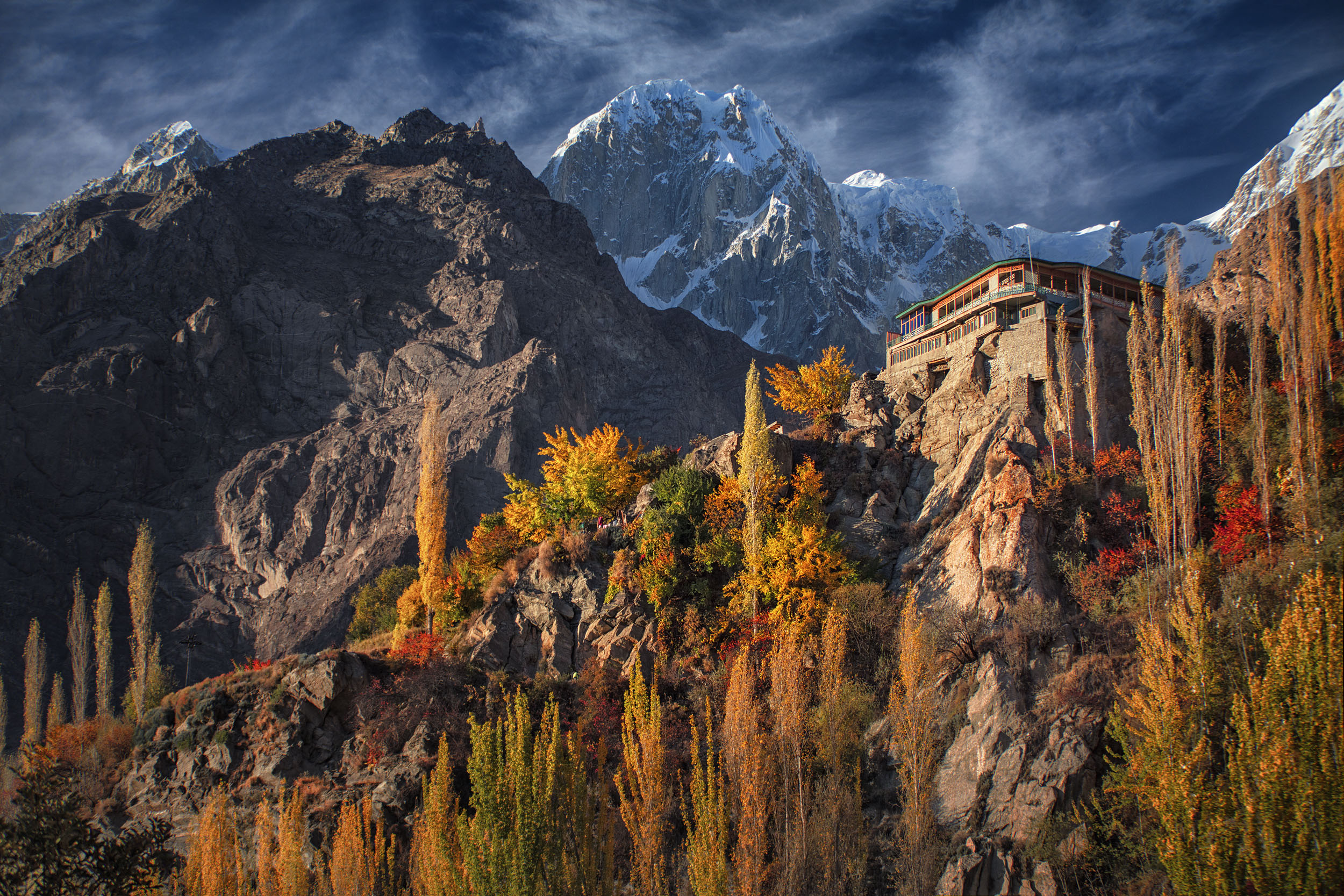 the beauty of the Altit Valley is impeccable Hunza, Gilgit Baltistan